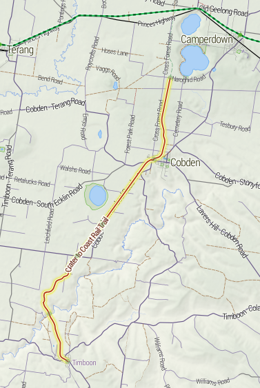 Map of Crater to Coast Rail Trail Cartography by Steve Bennett, data by OpenStreetMap contributors.